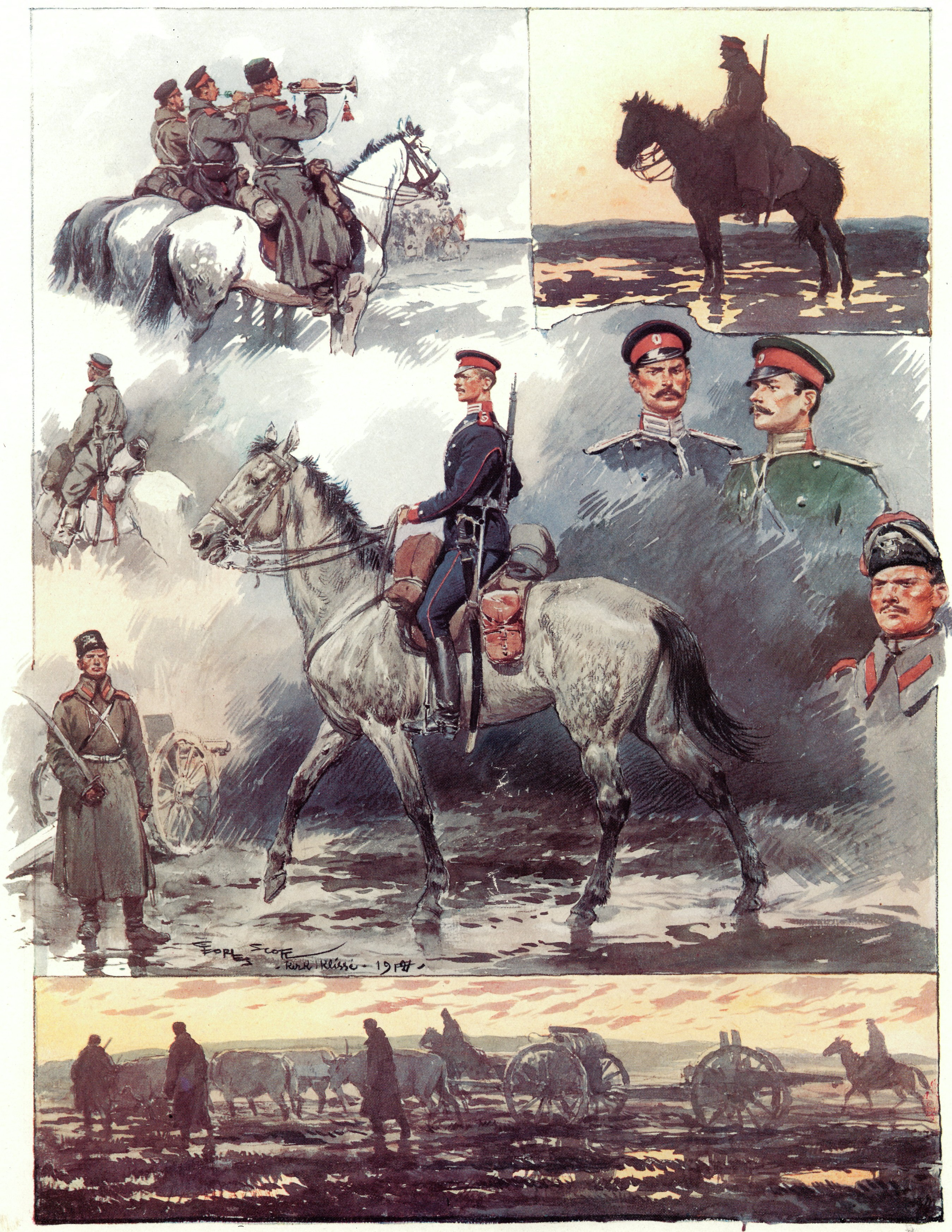 Collage of Bulgarian cavalry during the Balkan Wars, 1913